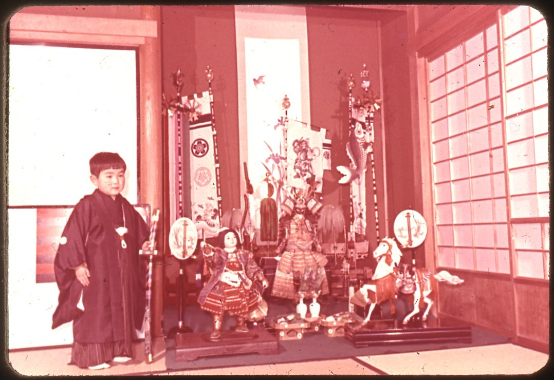 Here is another picture from the 1957 set of pictures of Japan in Color. Here's what the caption reads for this picture: Boy's Festival: The month of May is the turning point of the season, and is connected with the transplanting of rice seedlings. This picture shows a representative decoration, as well as carp streamers floating in the May sky which are the symbol of the boy's festival. The month of May has always been the season when exhortations were given to youth since ancient times, so it may have been this which helped the officials in deciding to make it a holiday for children.